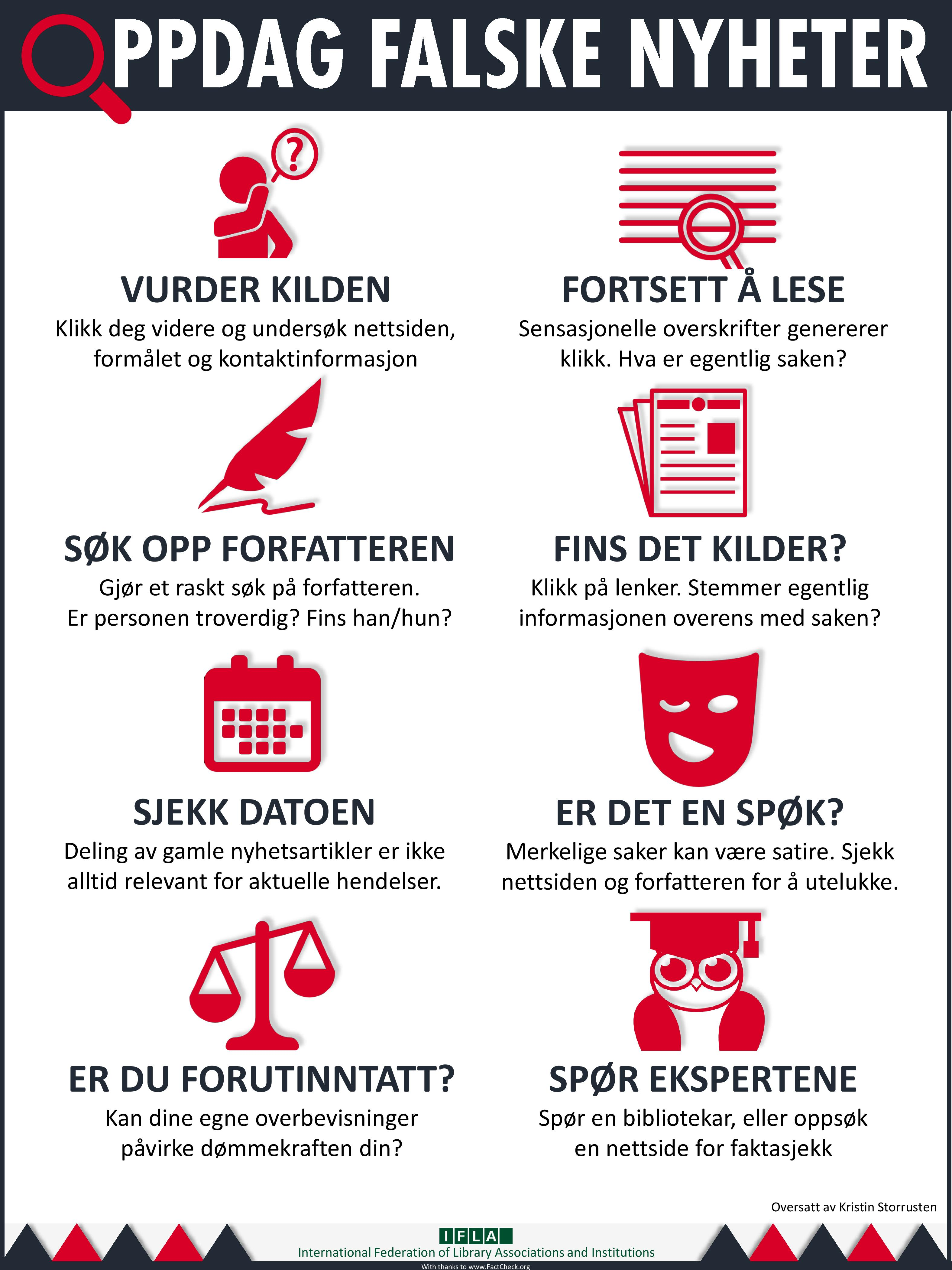 Norwegian (bokmål) translation of IFLA infographic based on ’s 2016 article "How to Spot Fake News" in JPG format.